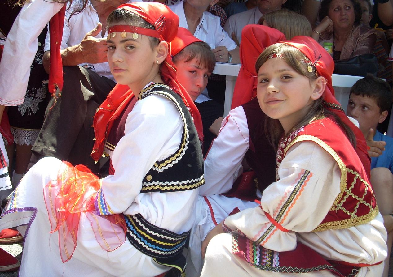 Children's Day In Kosovo